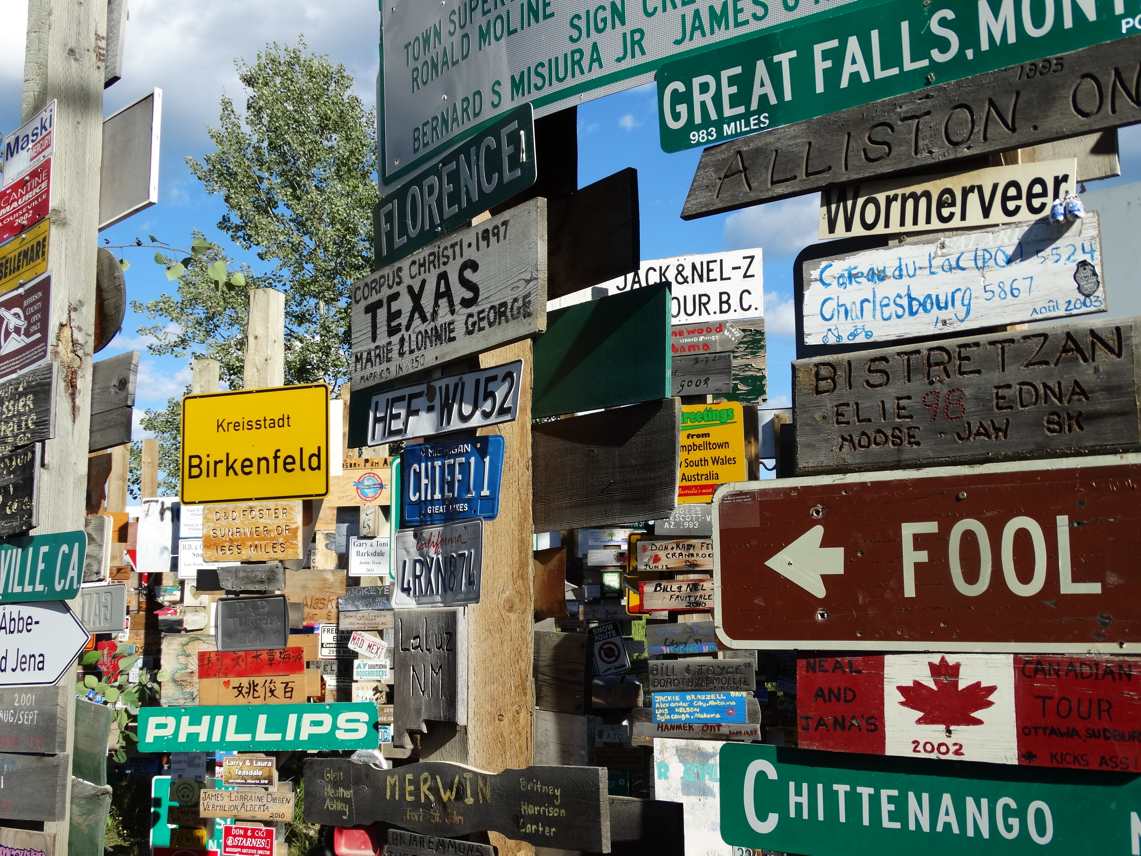 Signpost Forest - Watson Lake - Yukon - Canada - 03